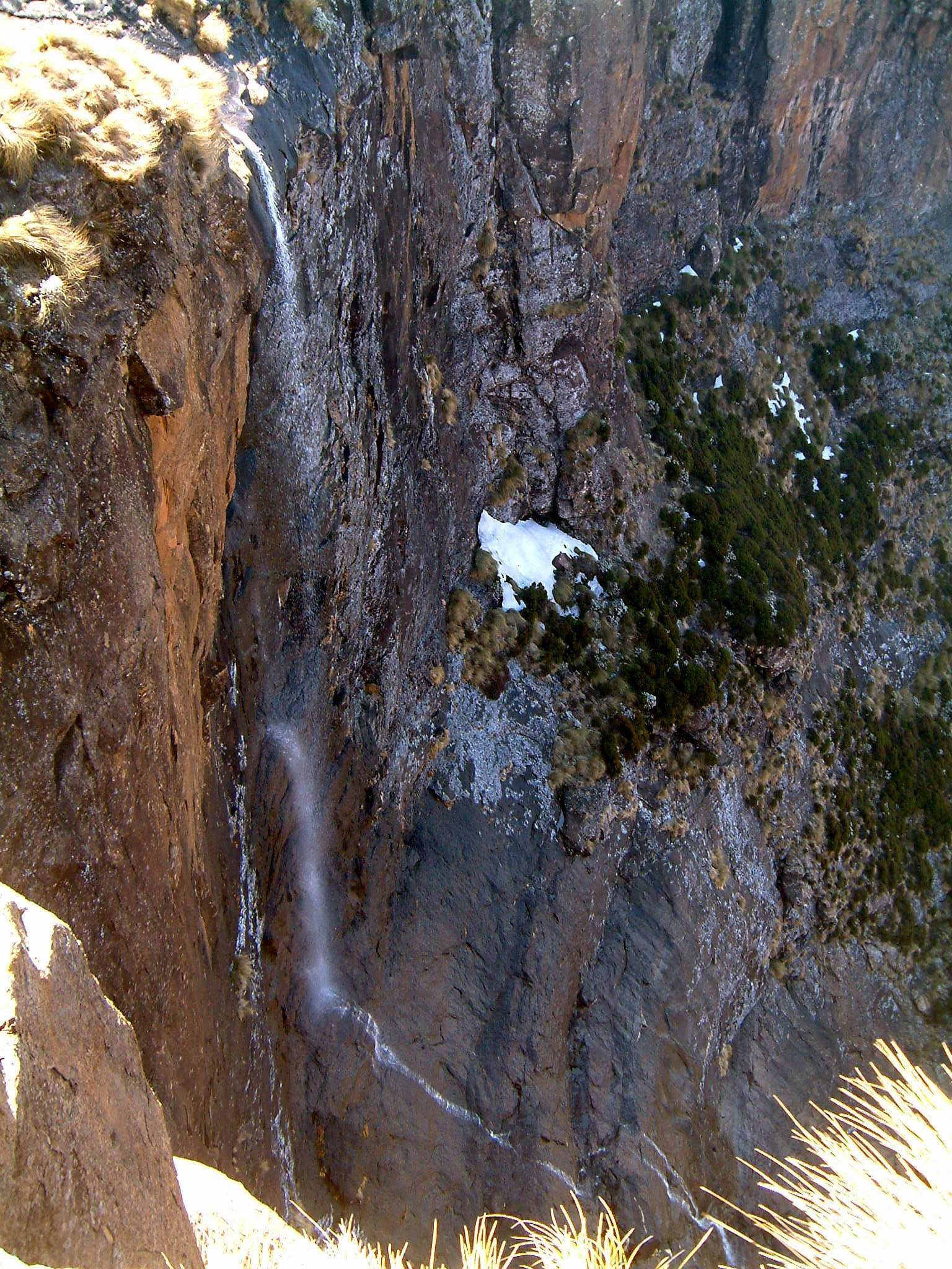 Tugela Falls, Royal Natal National Park (Drakensberg, KwaZulu-Natal, South Africa). The picture was taken in September, with only very little water running down the falls.